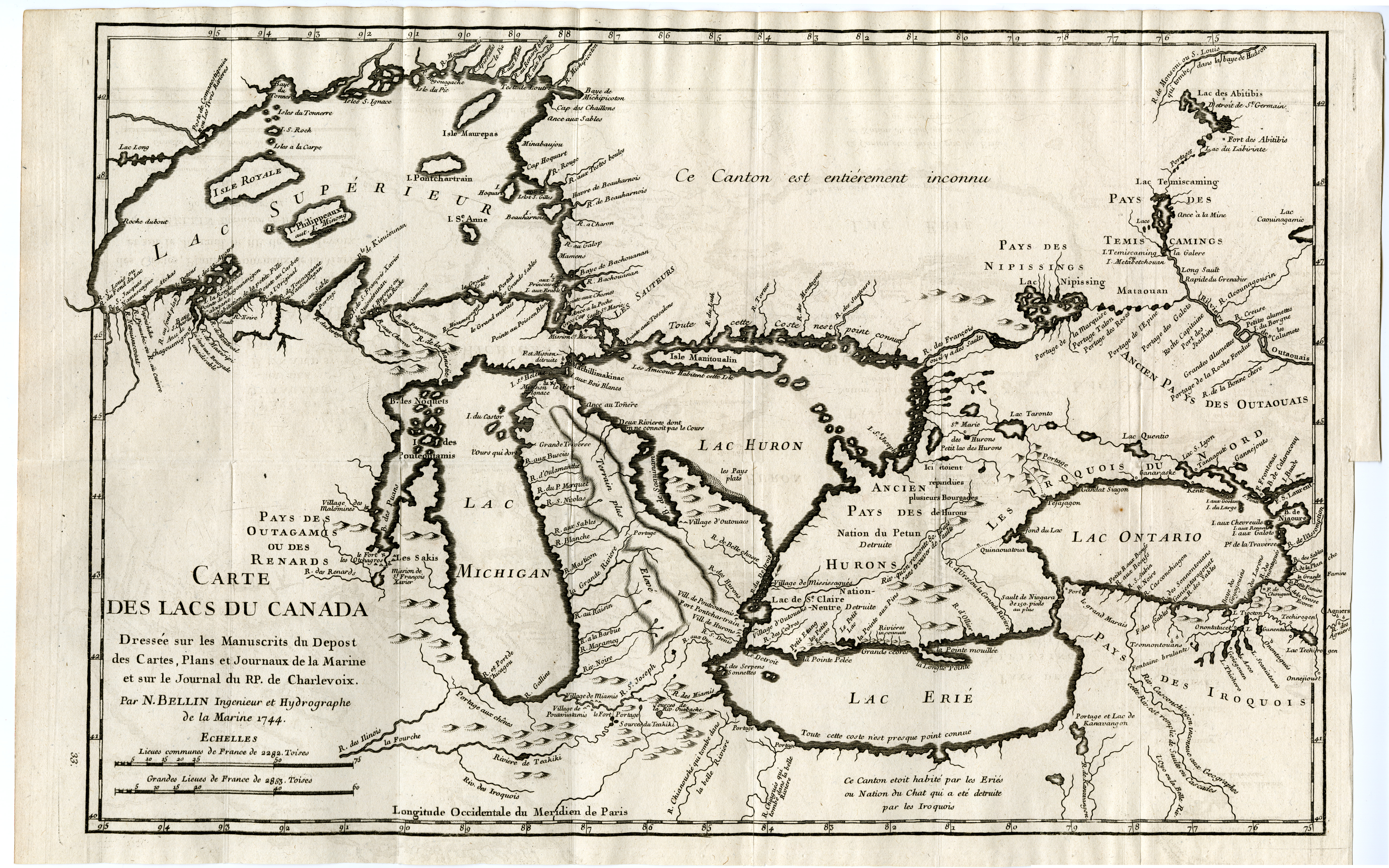 Map of the Great Lakes. Shows also phantom islands Phélipeaux and Pontchartrain.